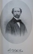 William Stephen Raikes Hodson (1821-1858)